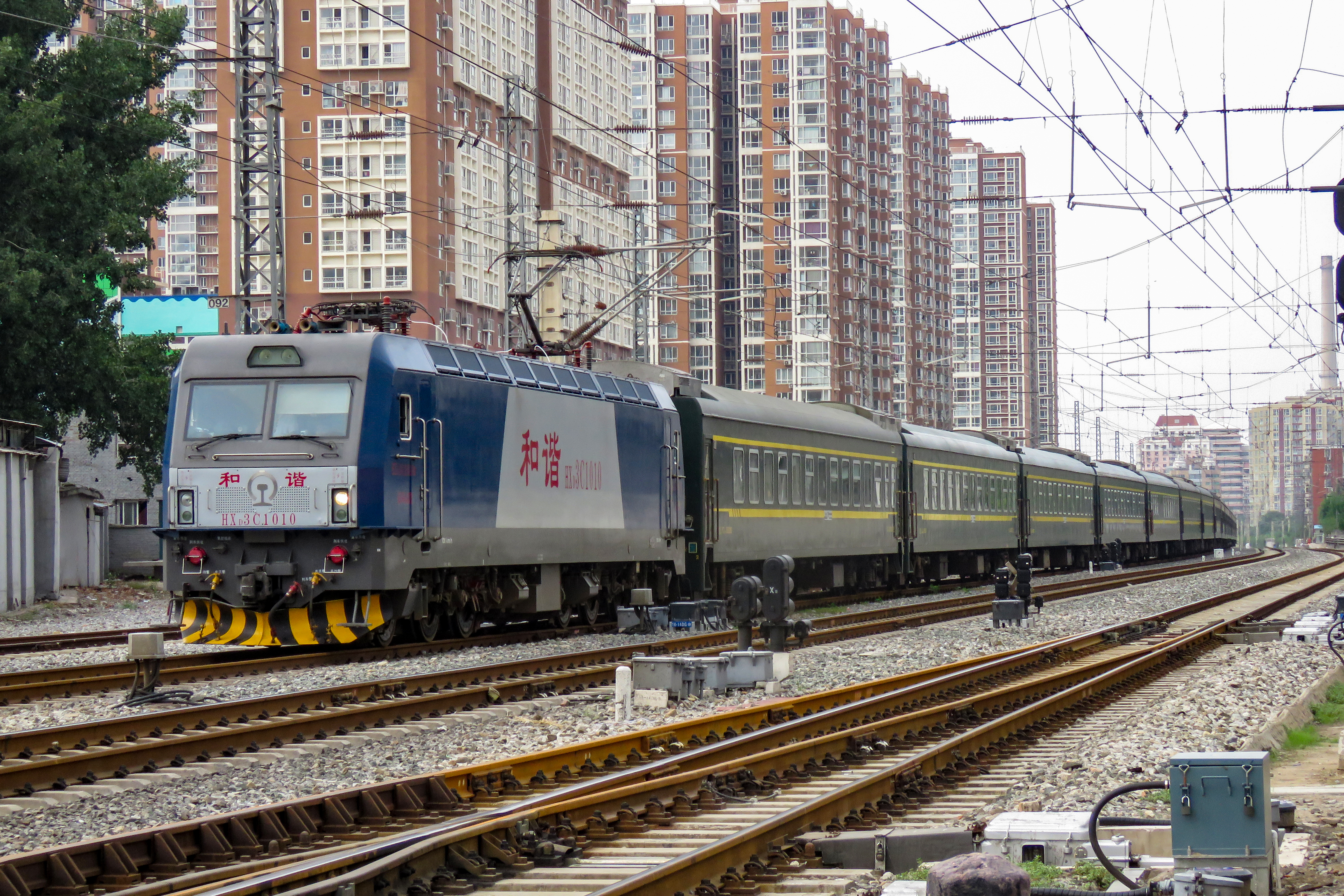 1133 to Wuhai West. Today is the last day of this level crossing.